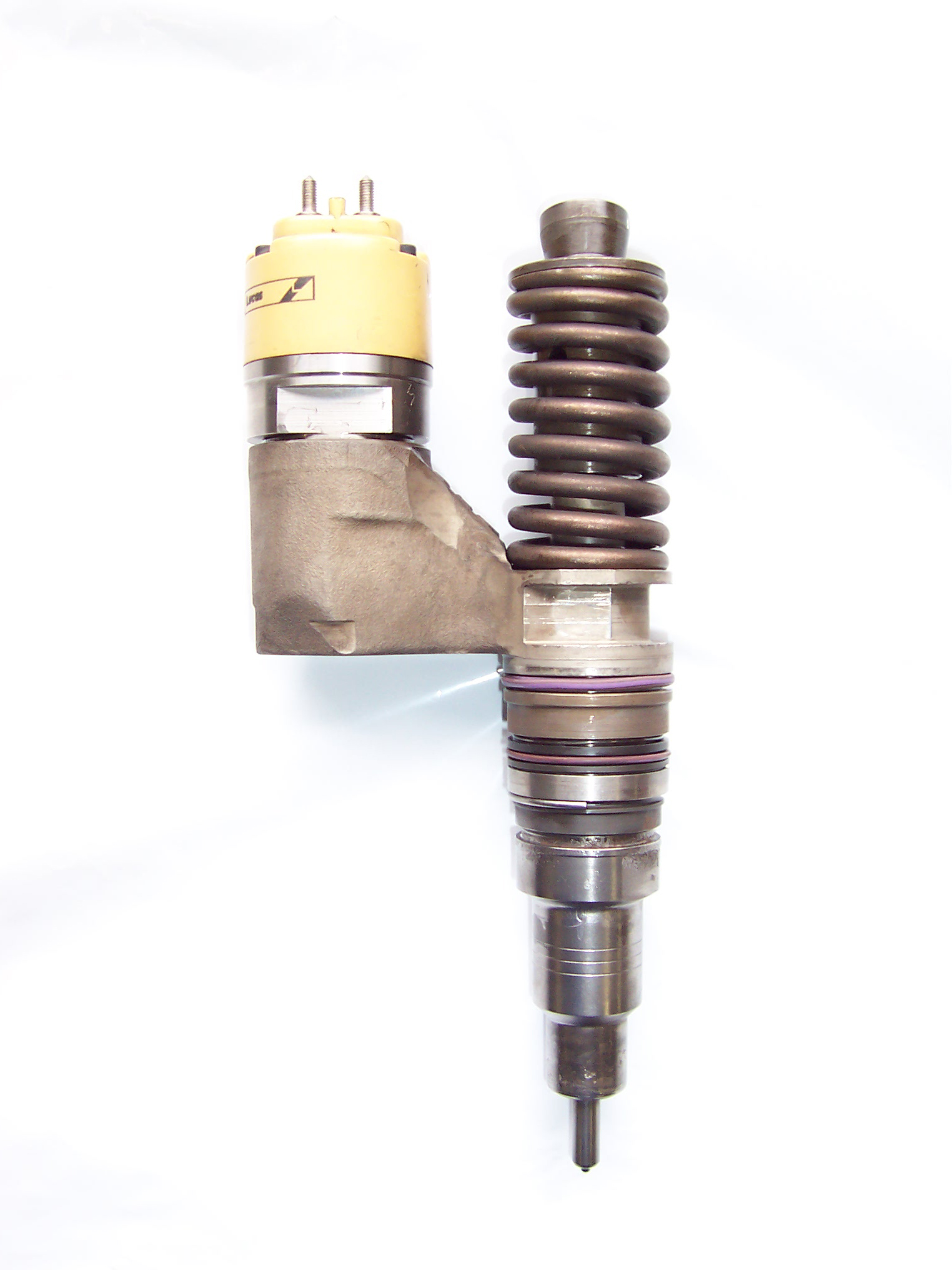 Unit Injector early prod type